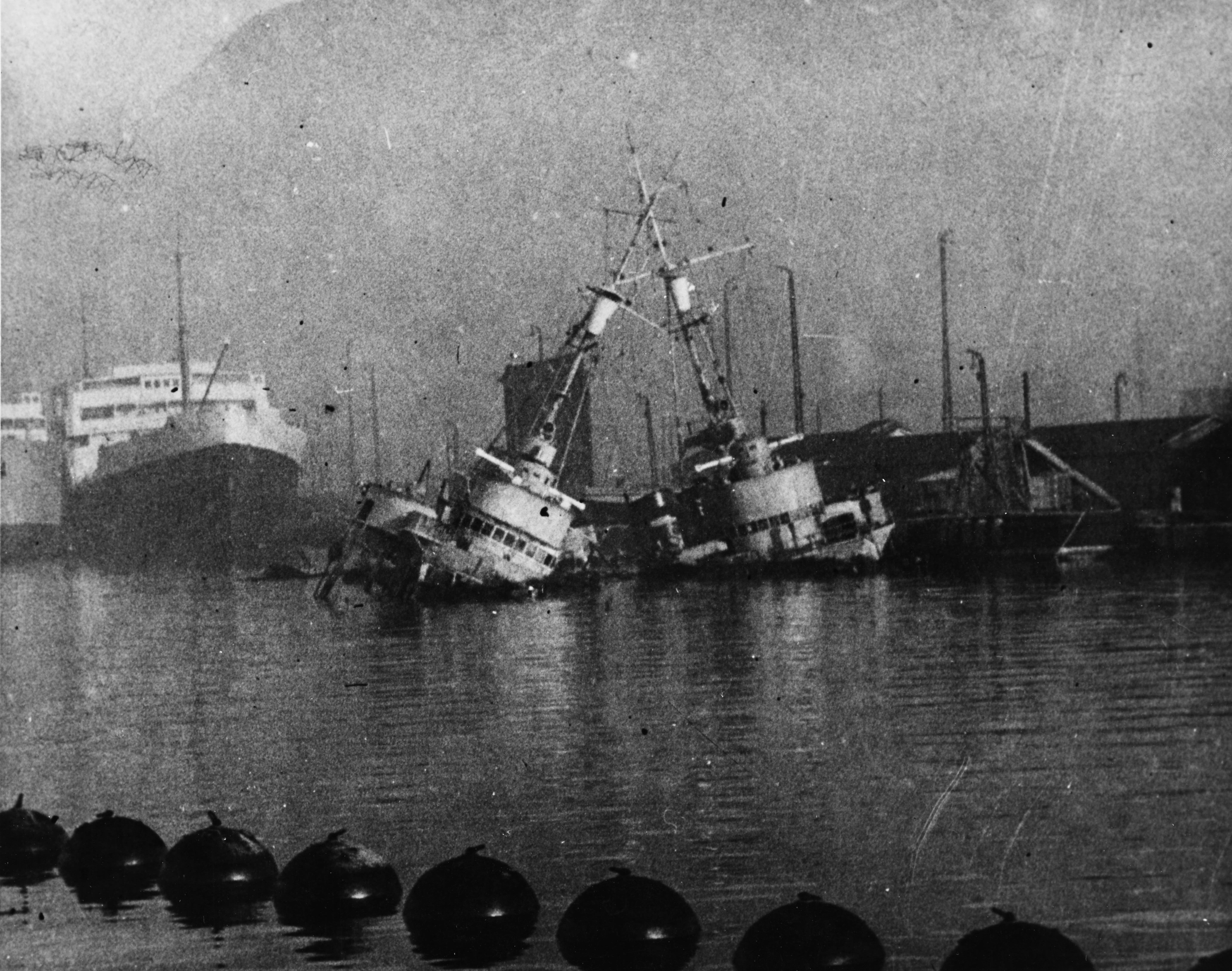 Scuttling of the French Fleet at Toulon on 27 November 1942: Destroyers Vauquelin (outboard, listing to port) and Kersaint sunk off the western end of Grands Bassins island, soon after scuttling. In the left background are the merchant ships Dauphine (partially visible, far left) and H. Deprez.